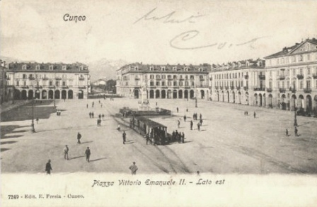 Cuneo, piazza VE II - 1905